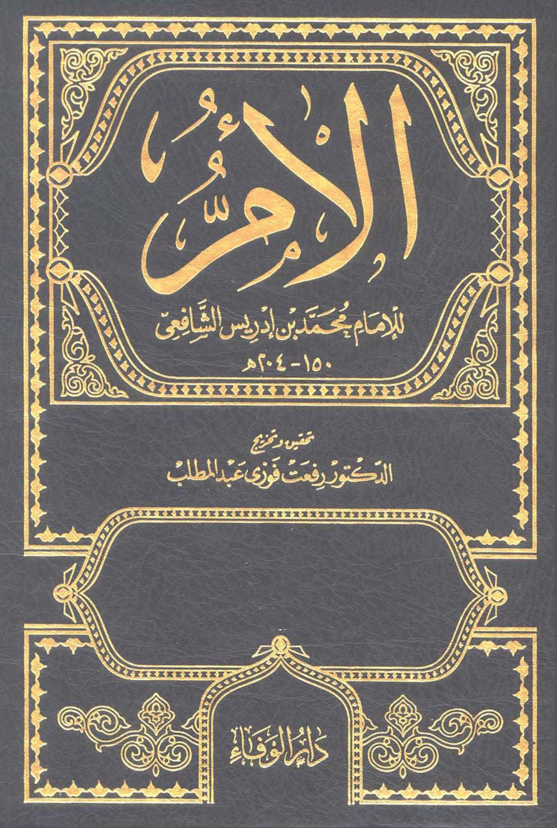 Title of Kitab al-Umm Author: Al-Shafi‘i (767–820) Published: Alexandria, Egypt